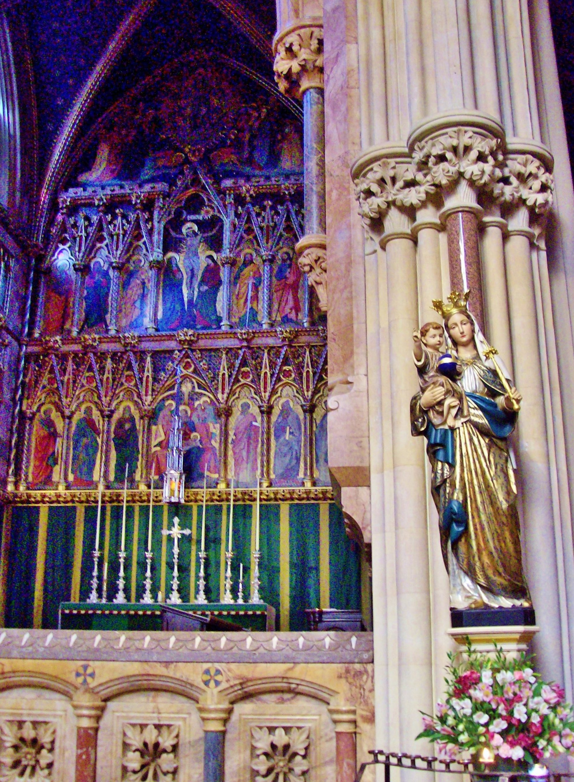 All Saints, Margaret Street Wikidata has entry Q4729371 with data related to this item.